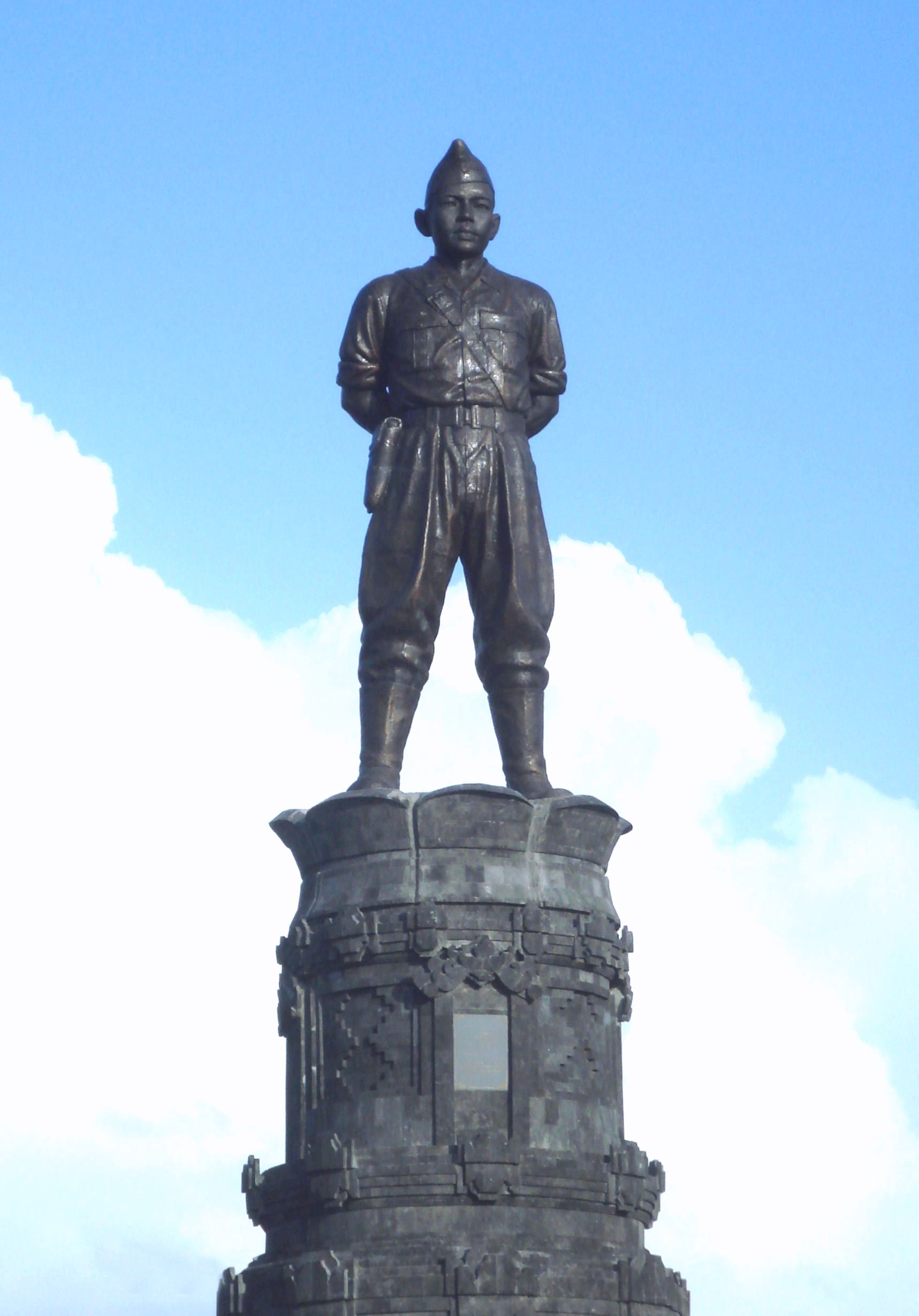 Statue of Ngurah_Rai